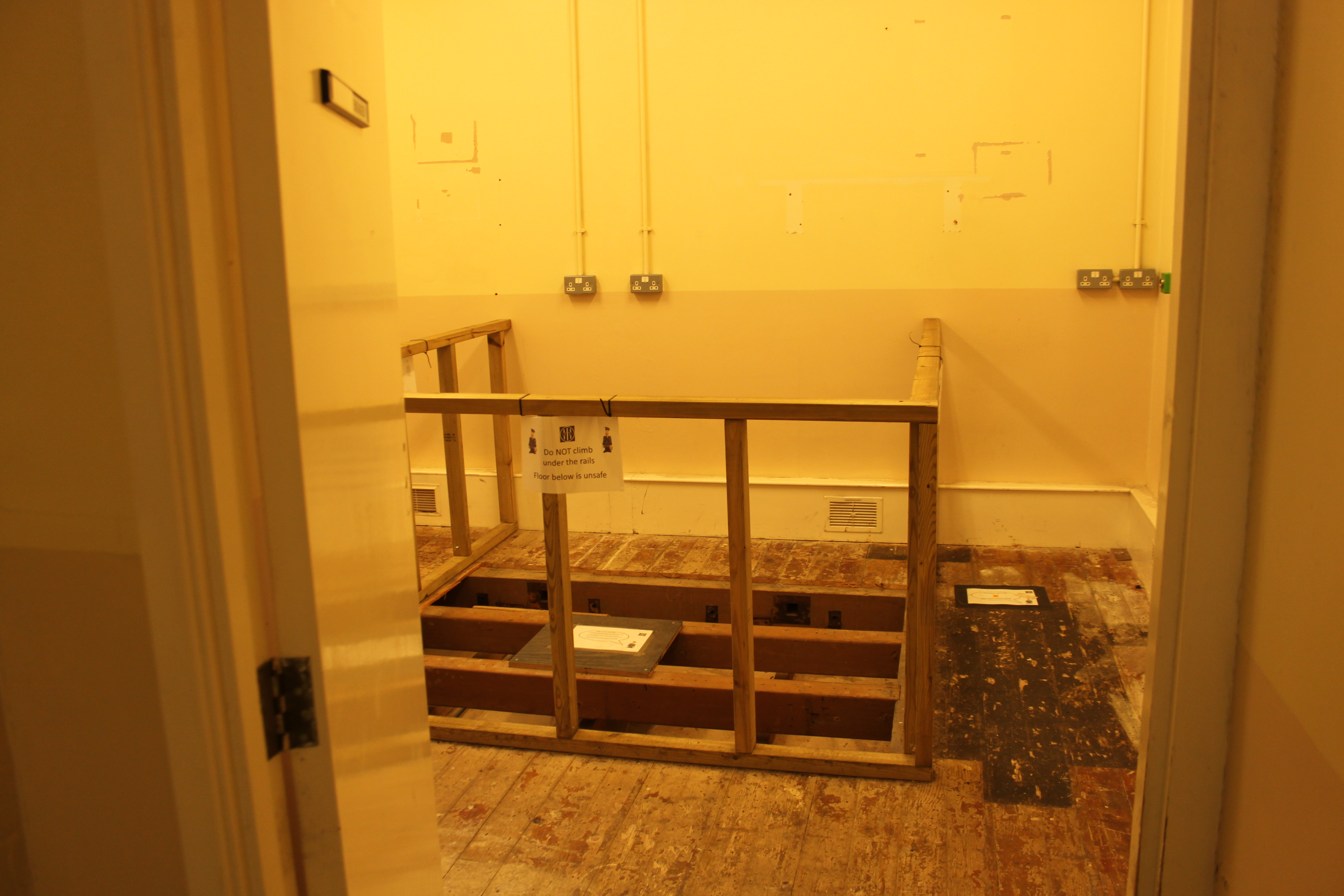 Photos of HM Prison Shepton Mallet taken March 2018